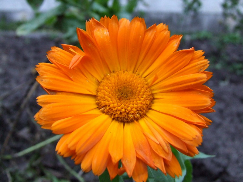 Calendula officinalis. Veseluvka, Jonava district, Lithuania.